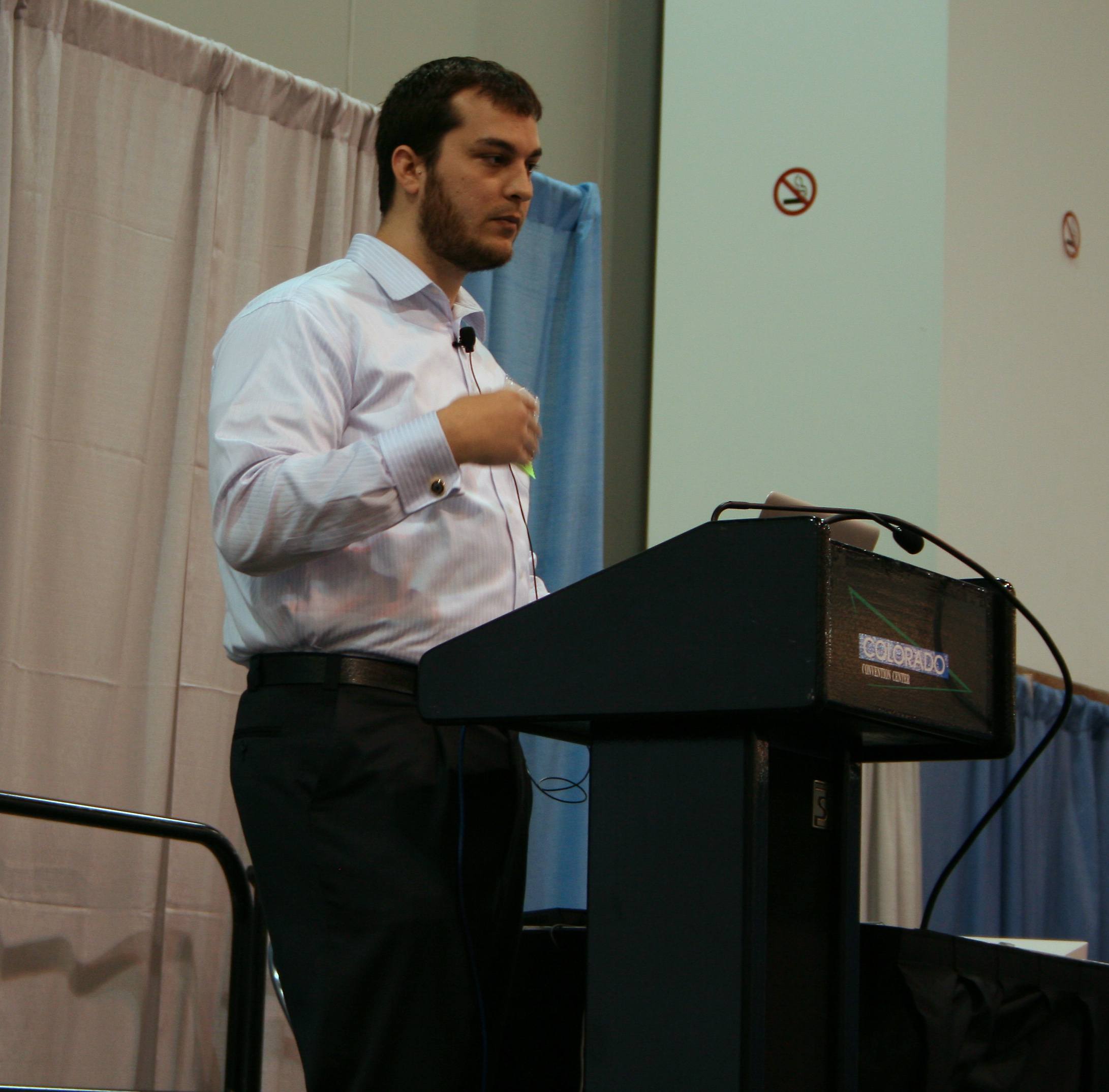 Joshua Ferraro, the founder of the open source software company LibLime